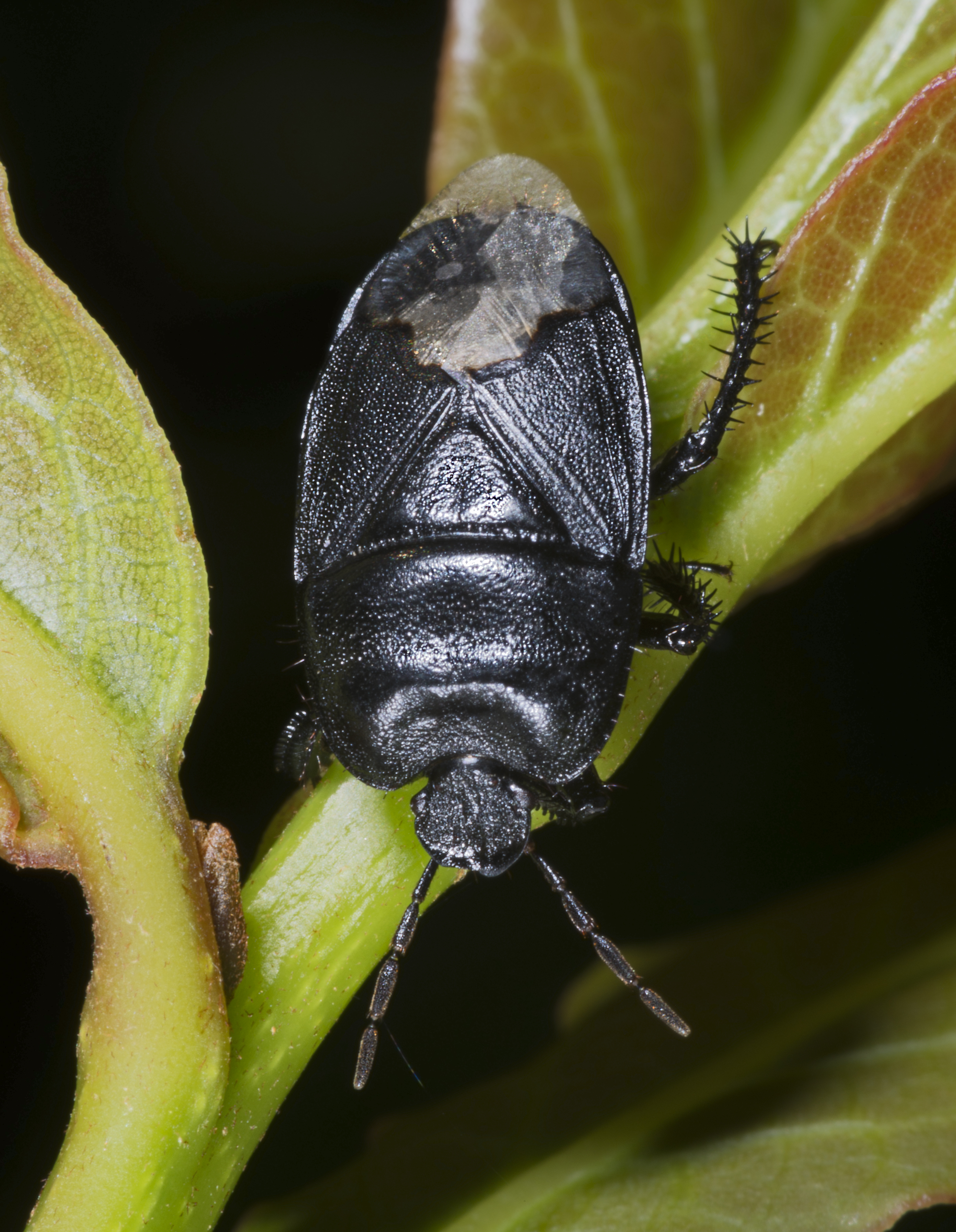 Cydnus aterrimus.